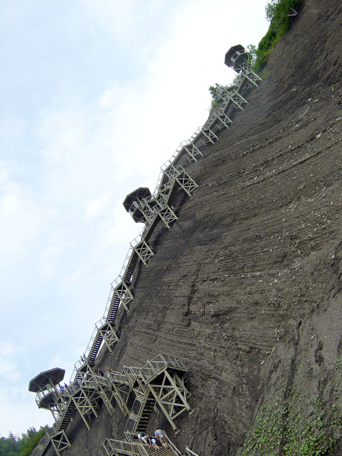 Stairs leading up towards the Montmorency Falls.